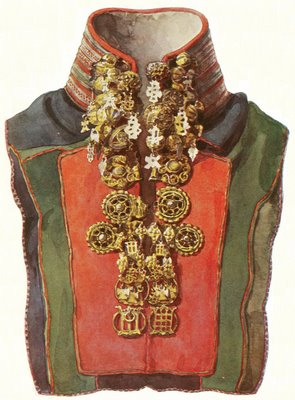 This is a Traditional Sami garment (costume) with metal (goldwork) embroidered collar and silver jewellery buckles from Lapland. Search words: Saami, Samisk, Brodering, Tinnbroderi, Metall broderi, metal tread embroidery, Collars, Sami silver, tenntråd, Barmklede, Bärmkläde, brystklede, Spenne, Sølje, Kolt, Kofte, Gakti, Samisk sølv, samiske smykker, Lappland, Viking, Sverige, Norway, Finland, Russia, Russland.